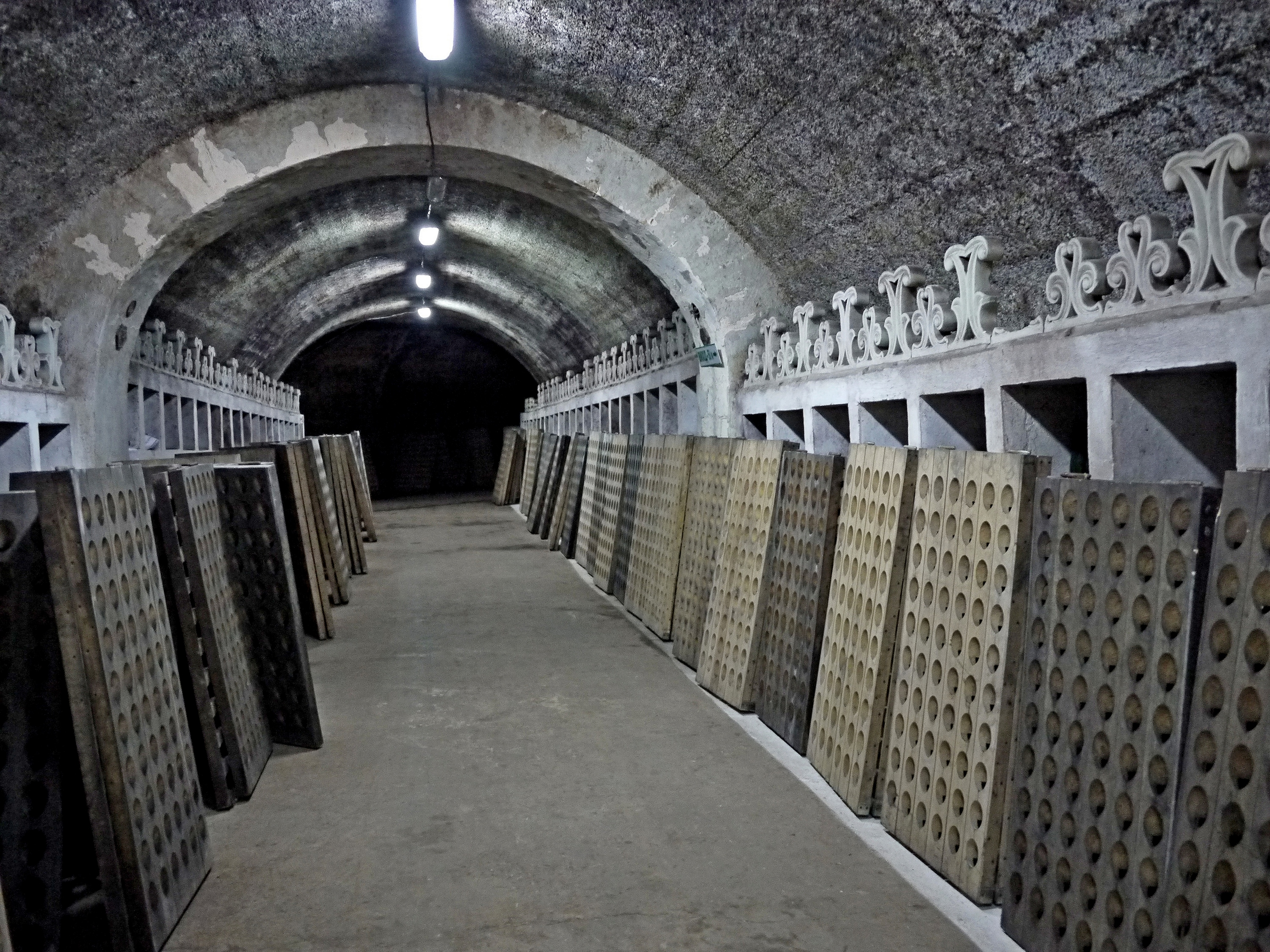 Tunnel enoteka of a name of prince Golitsyn L.S. of The Novy Svet Winery